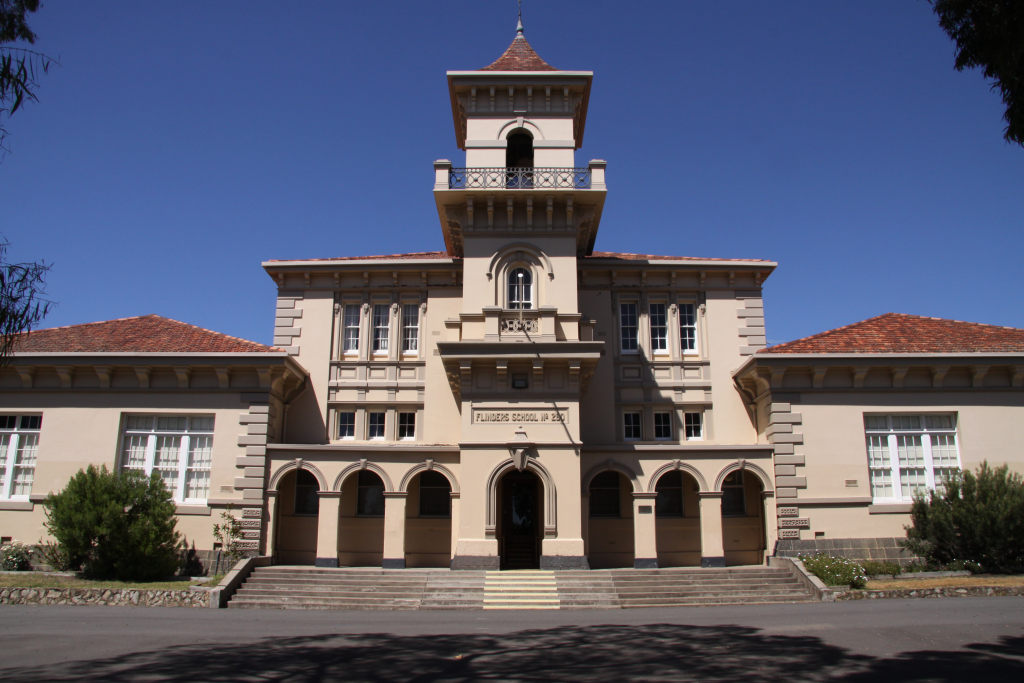 Main building of Matthew Flinders Girls Secondary College